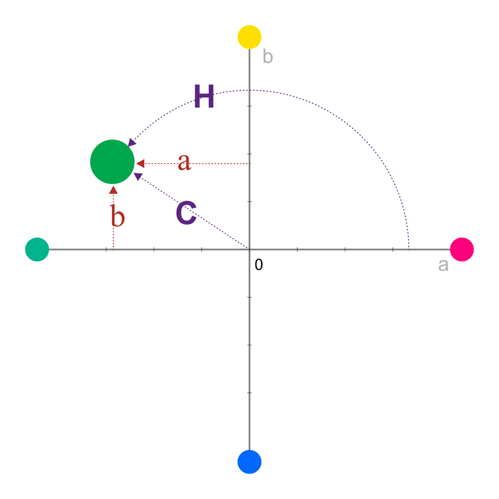 A CIELAB color can be noted in cartesian coordinates (Lab) and in polar coordinates (HLC).